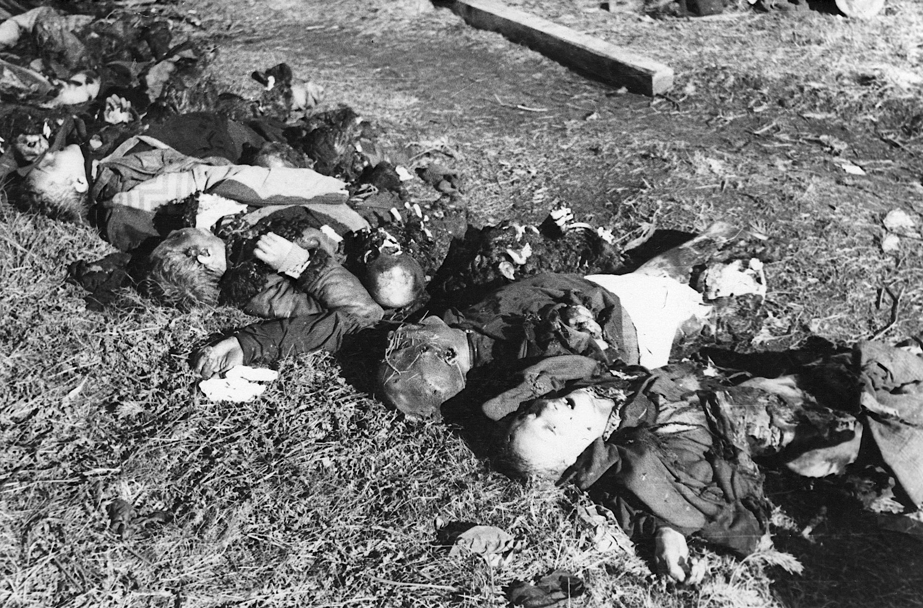 See title